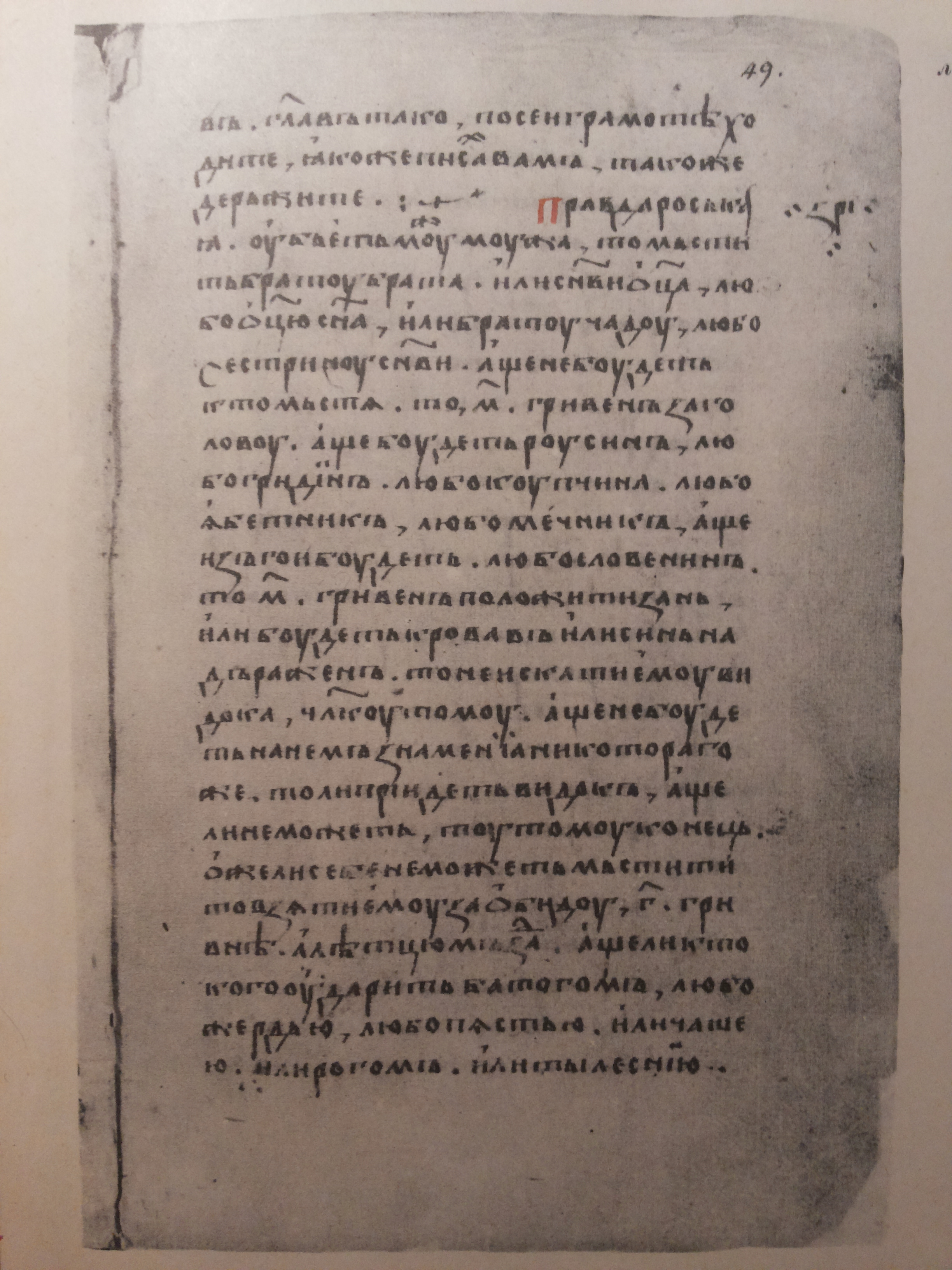 Russkaya Pravda Akademian codex 1st title.jpg